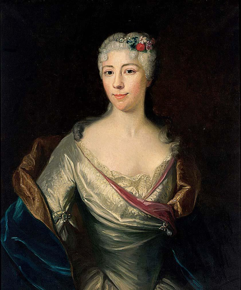 Portrait of Sophie of Erbach-Erbach (1725-1795), wife of William Henry, Prince of Nassau-Saarbrücken